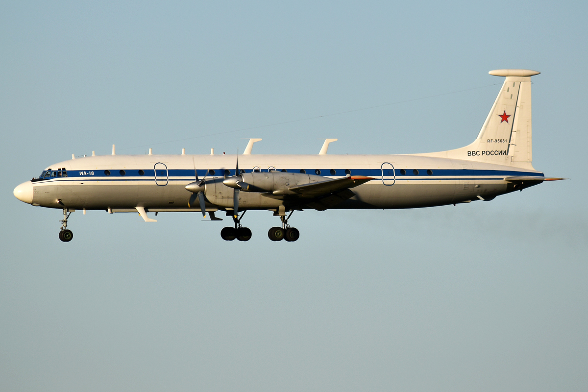 Russian Air Force, RF-95681, Ilyushin Il-22M-11 Zebra